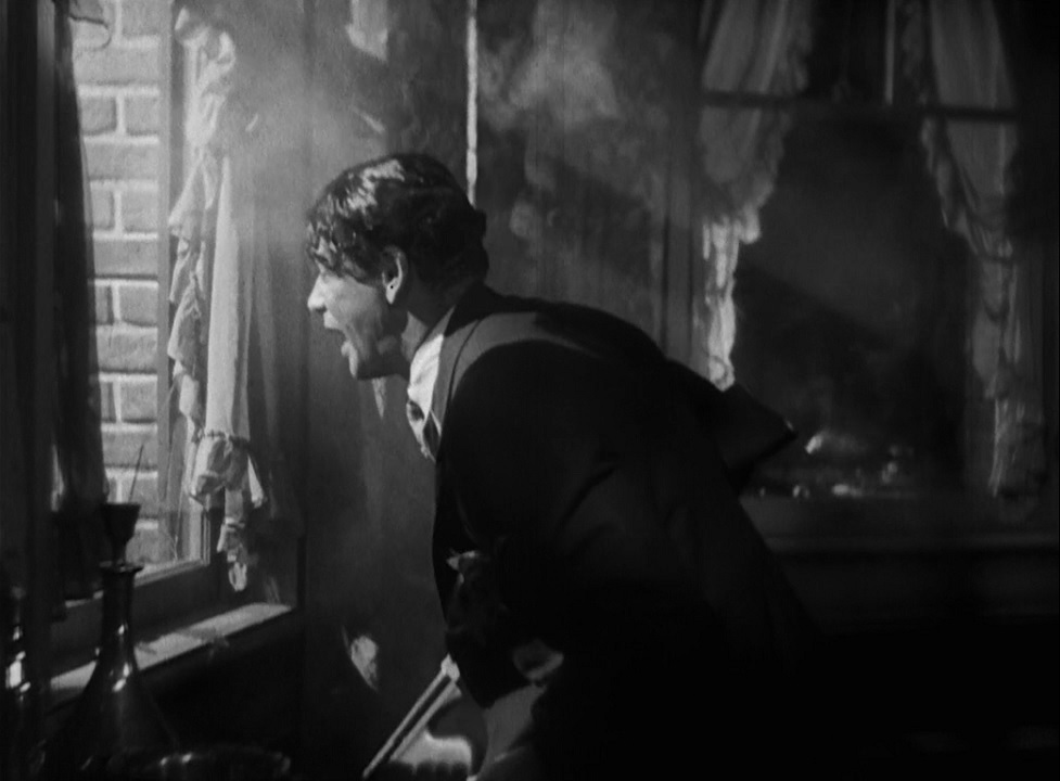 Cropped screenshot from the trailer for the 1932 film Scarface.